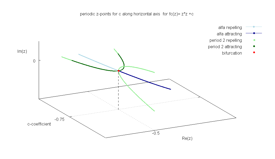 Bifurcation of periodic points from period 1 to 2 for fc(z)=z*z +c. Parabolic parameter c = -3/4 and fixed point z = 1/2